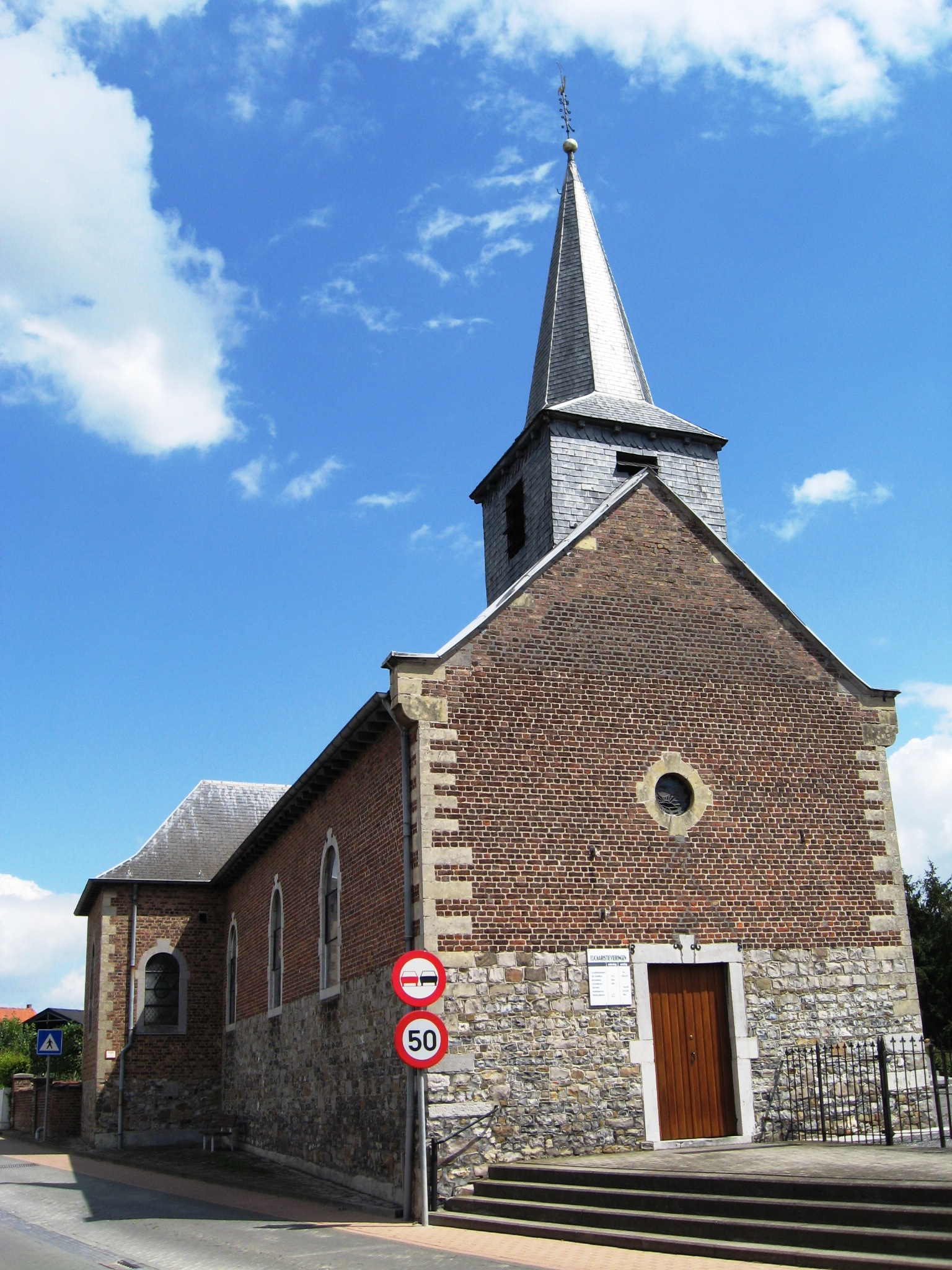 Church of Saint Lambert in Broekom, Borgloon, Limburg, Belgium